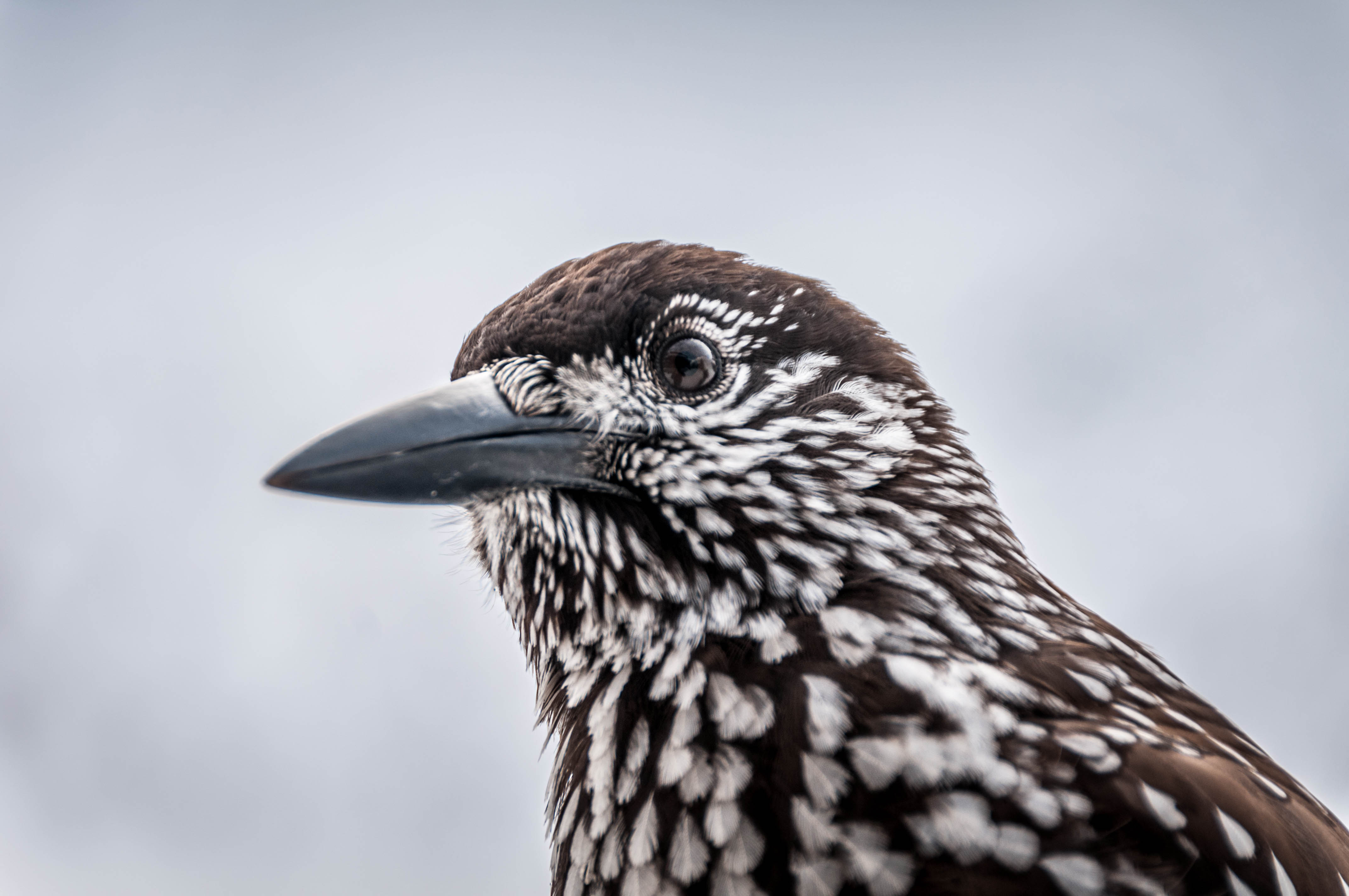 Spotted Nutcracker (Nucifraga caryocatactes, Prešov, Slovakia. December 2013